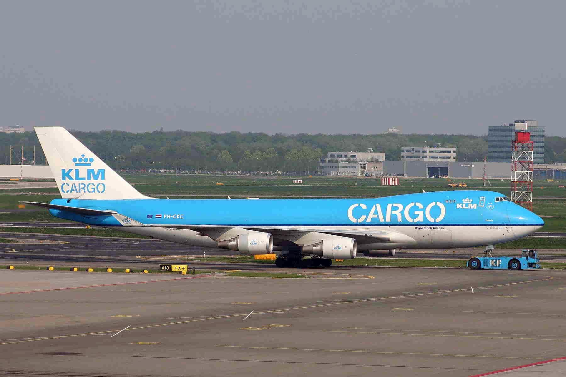 A picture of an airplane (name of it is on the file name).